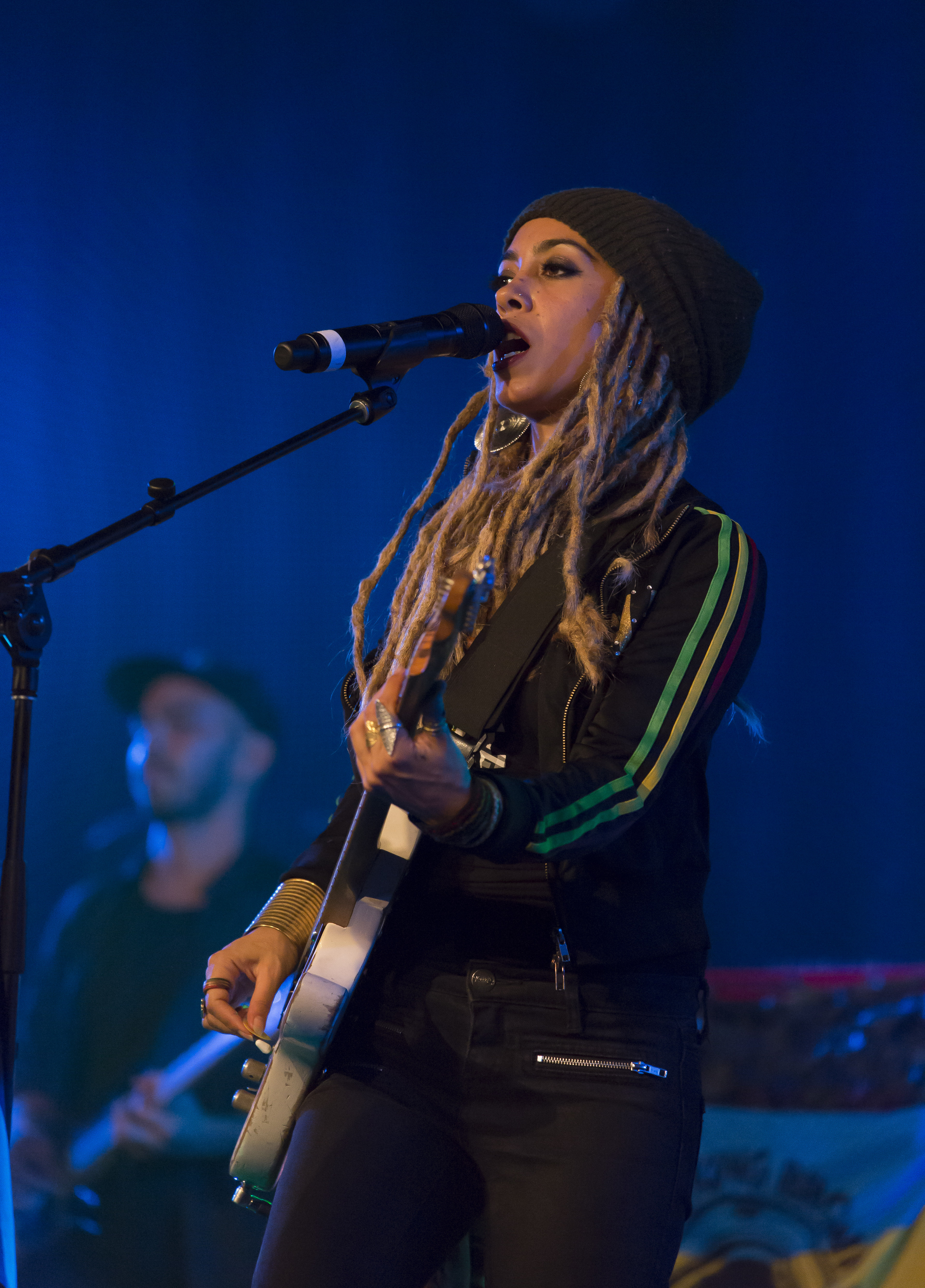 Byron Bay Bluesfest, 2015